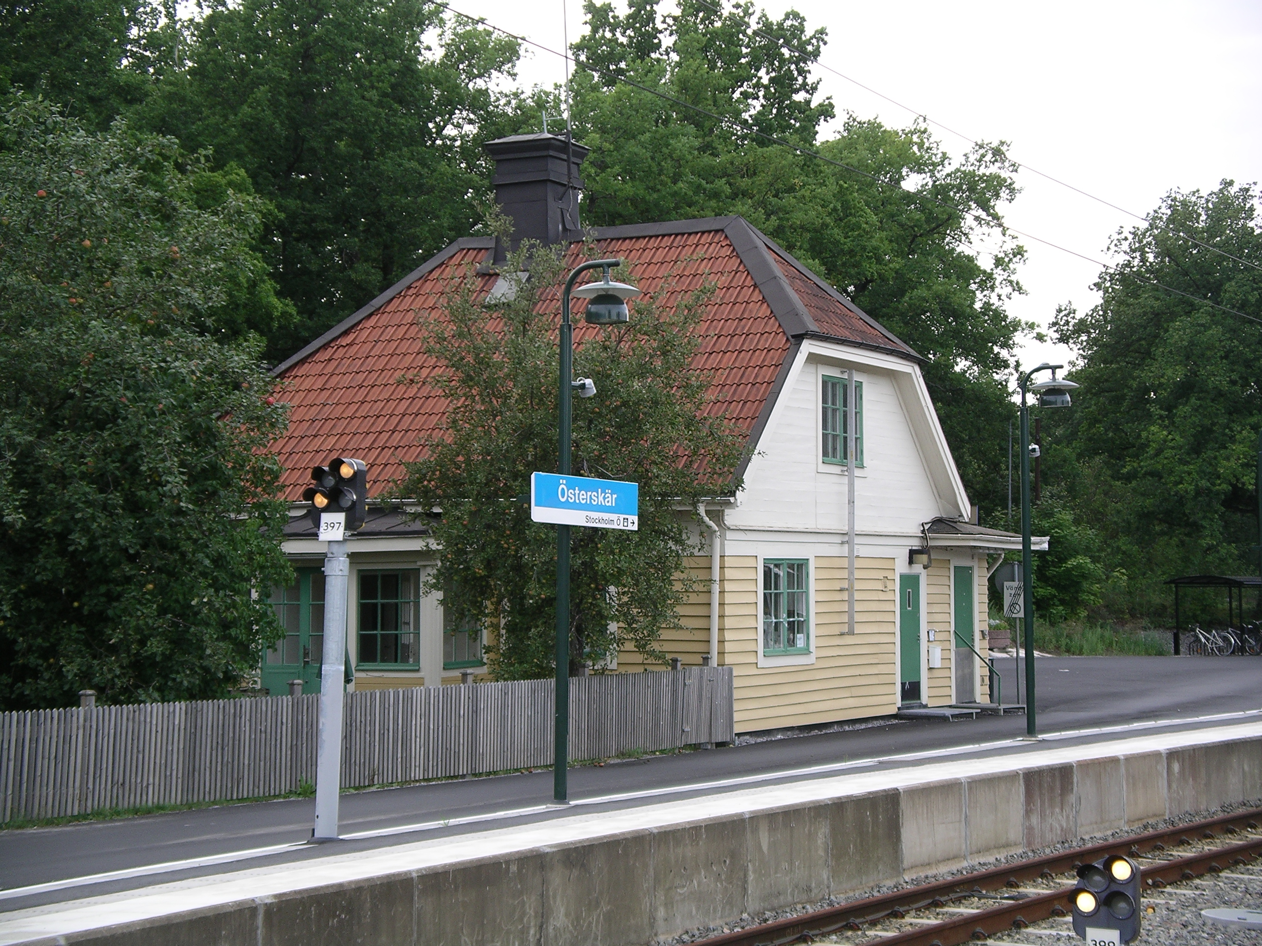 Railway station Österskär at Roslagsbanan, Stockholm Sweden